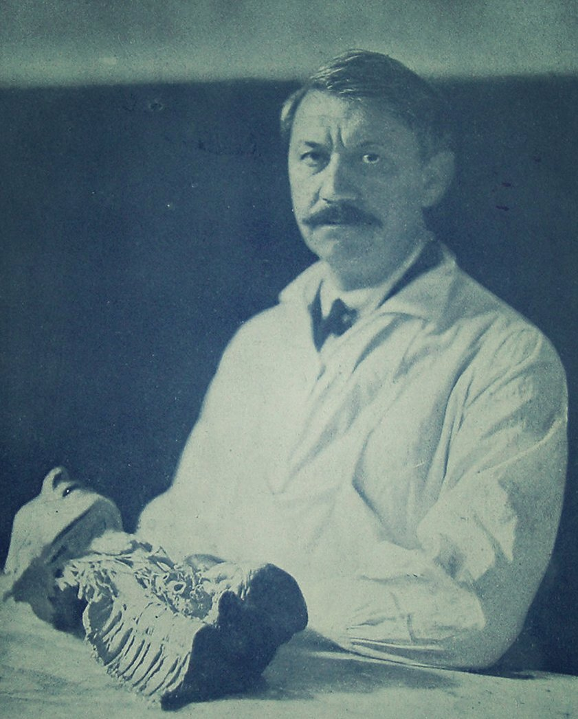 Photograph of the Romanian pathologist, anatomist and educator Francisc Rainer, alongside a specimen of cervical vertebrae.